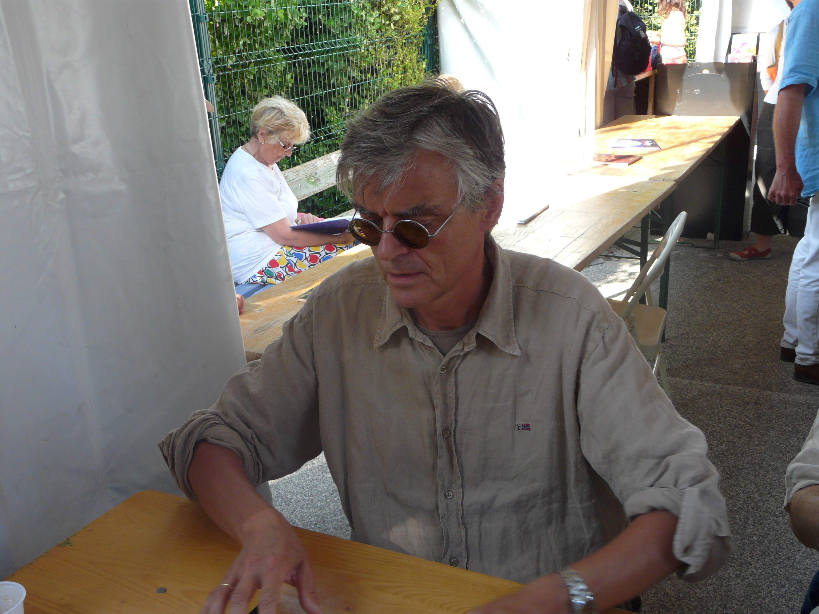 Photographs taken during the International Comic Festival of Sollies Ville, France